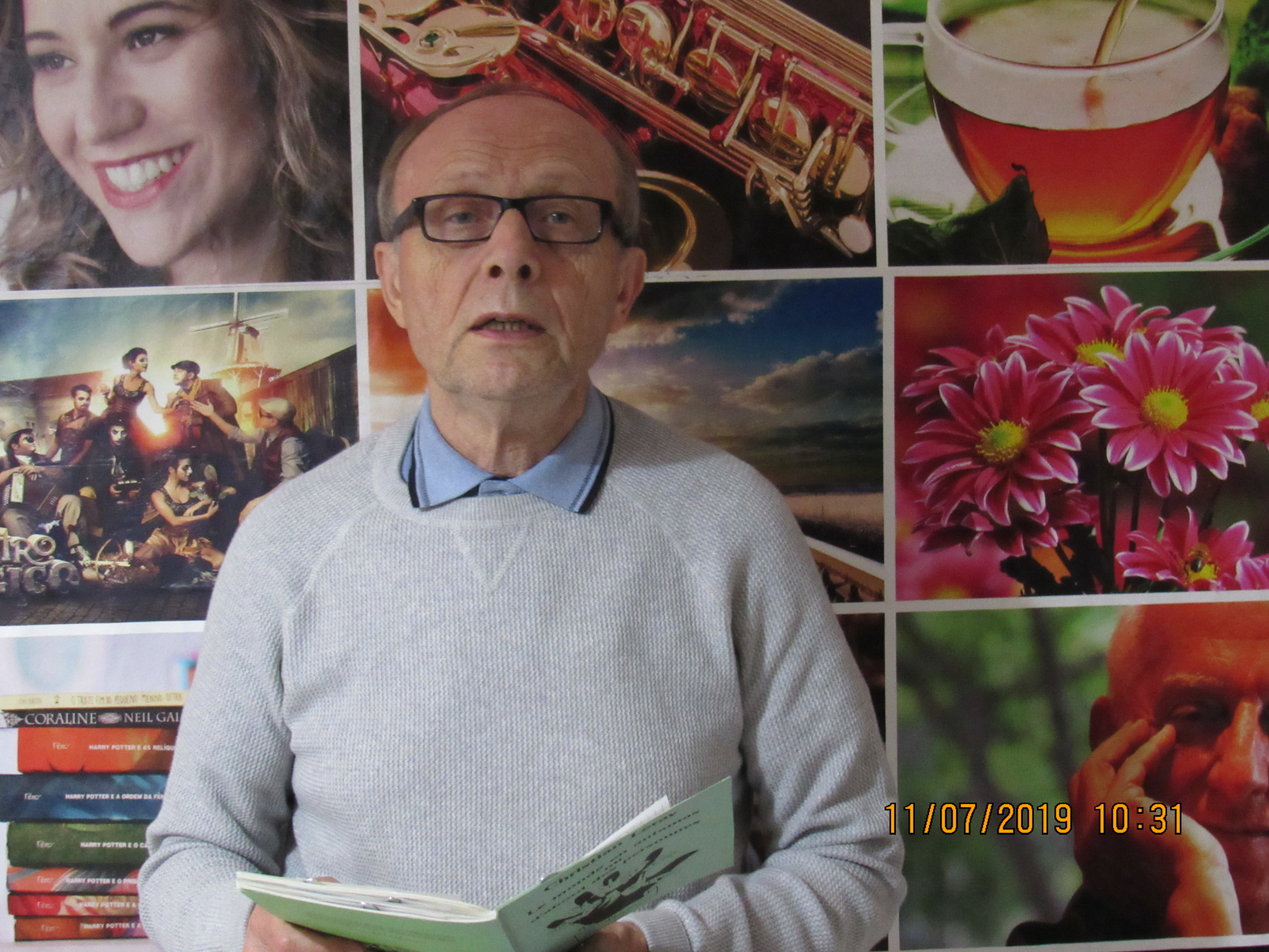 video cover